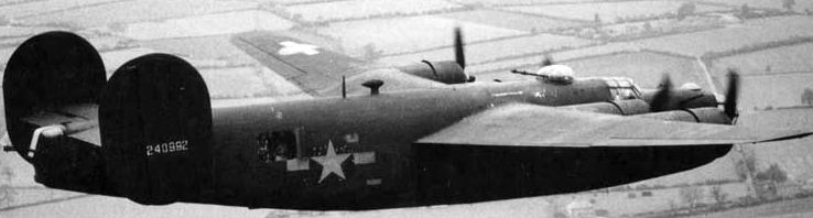 Consolidated B-24D-120-CO Liberator 42-40992 - Red Ball Express 492bg 856bs